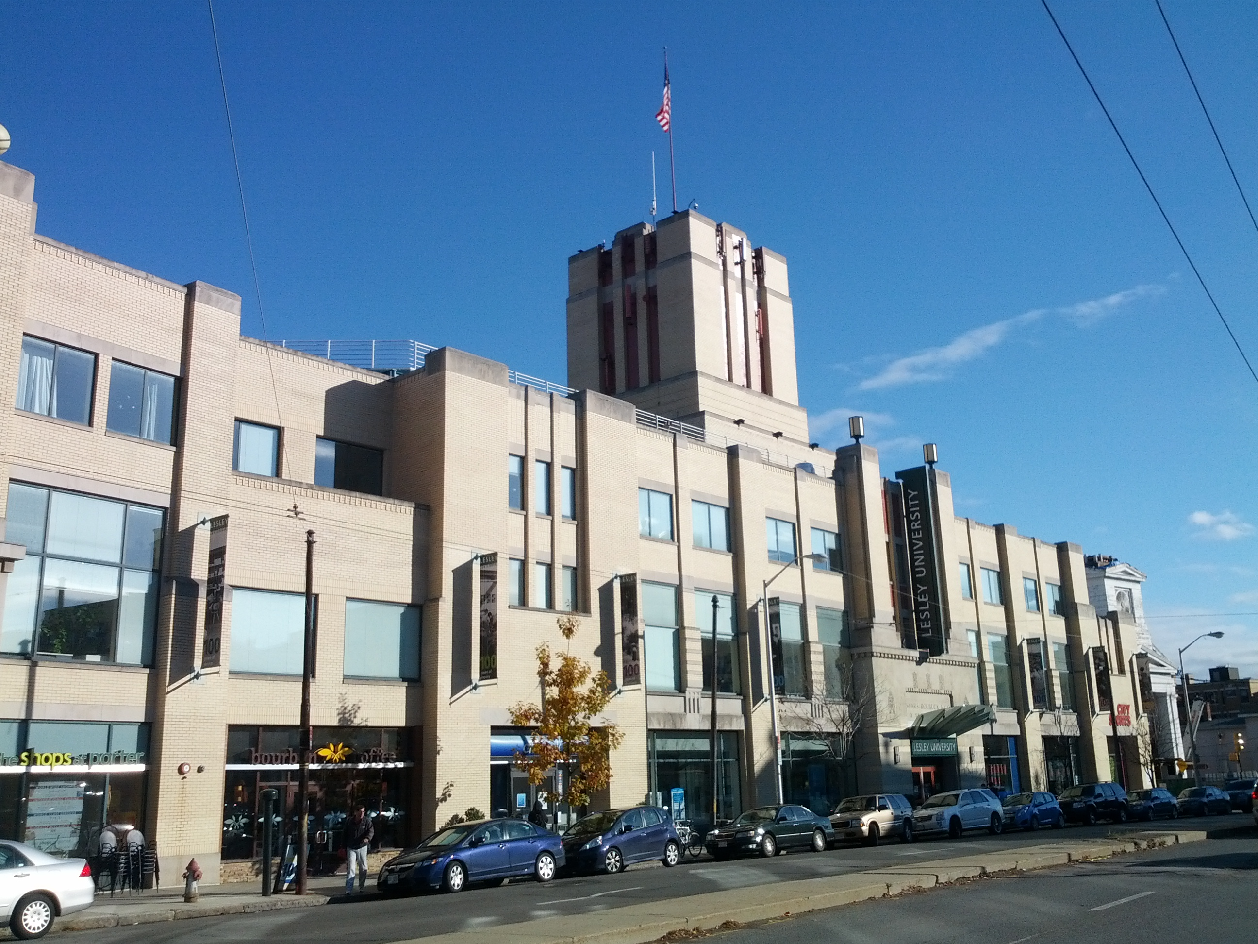 Porter Exchange Building Porter Square, Cambridge MA